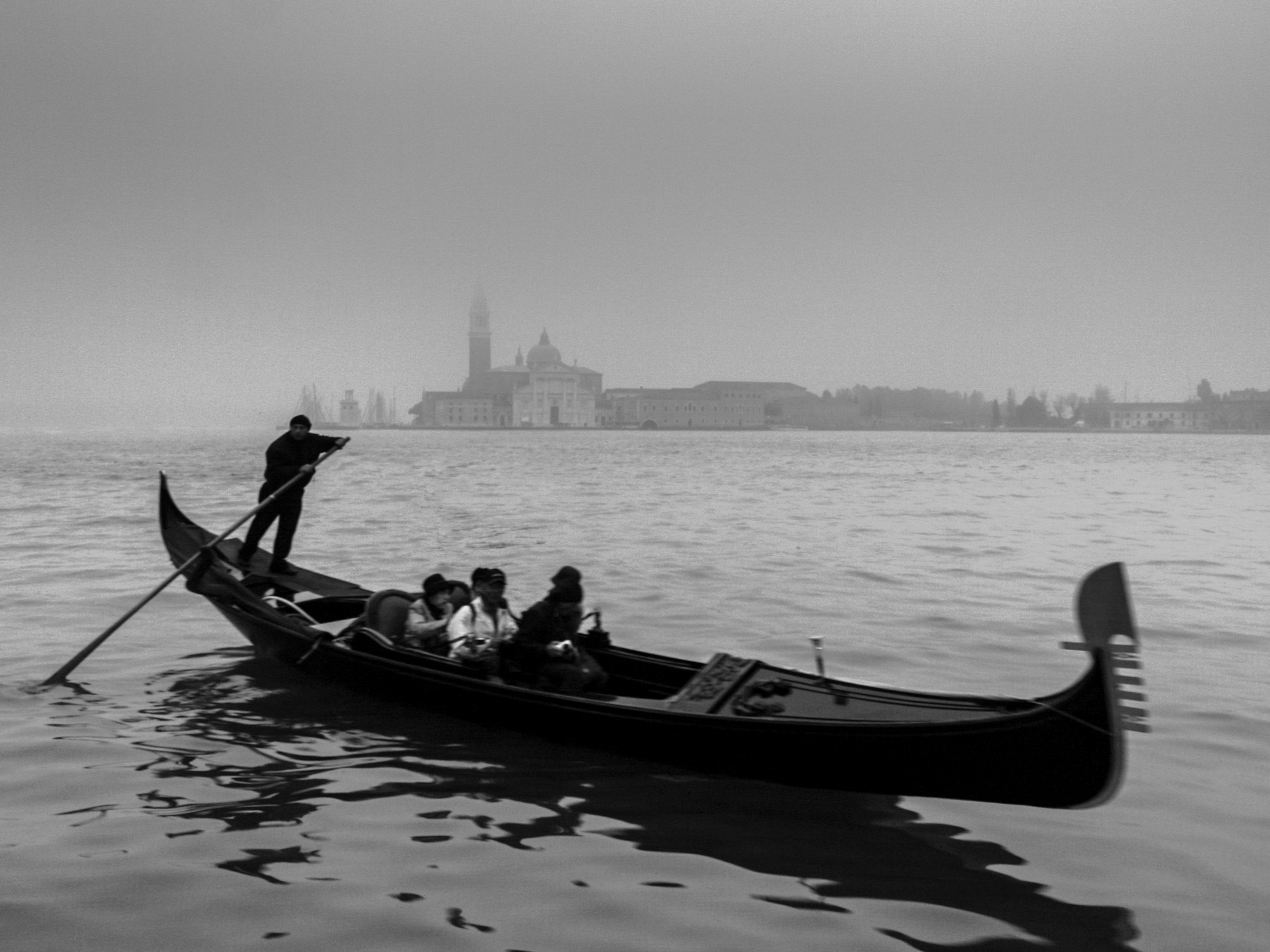 Gondola Ride A photo by Shaun Bowden kindly released by his widow